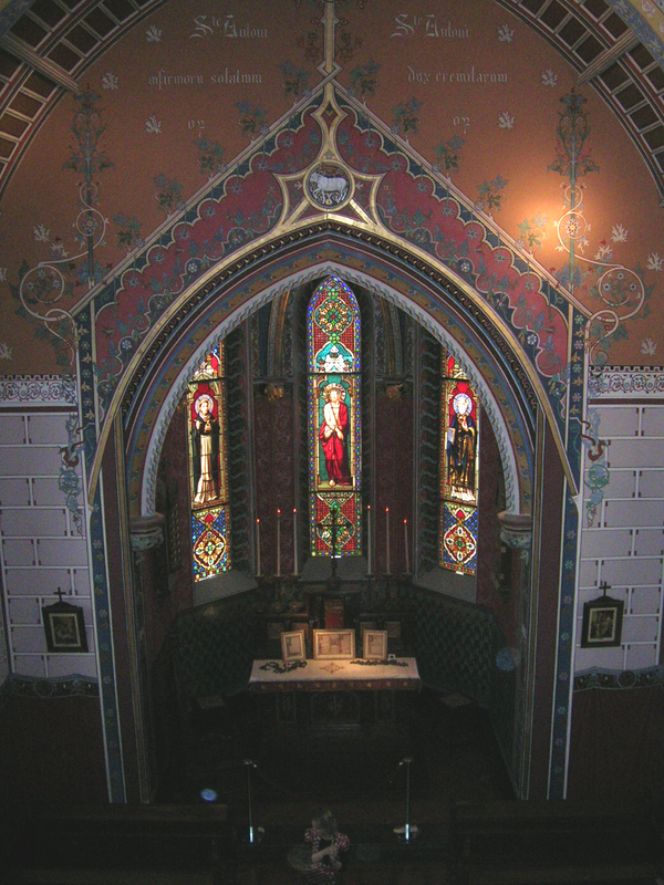 Chapel of Abbadia castle, Hendaye (France)